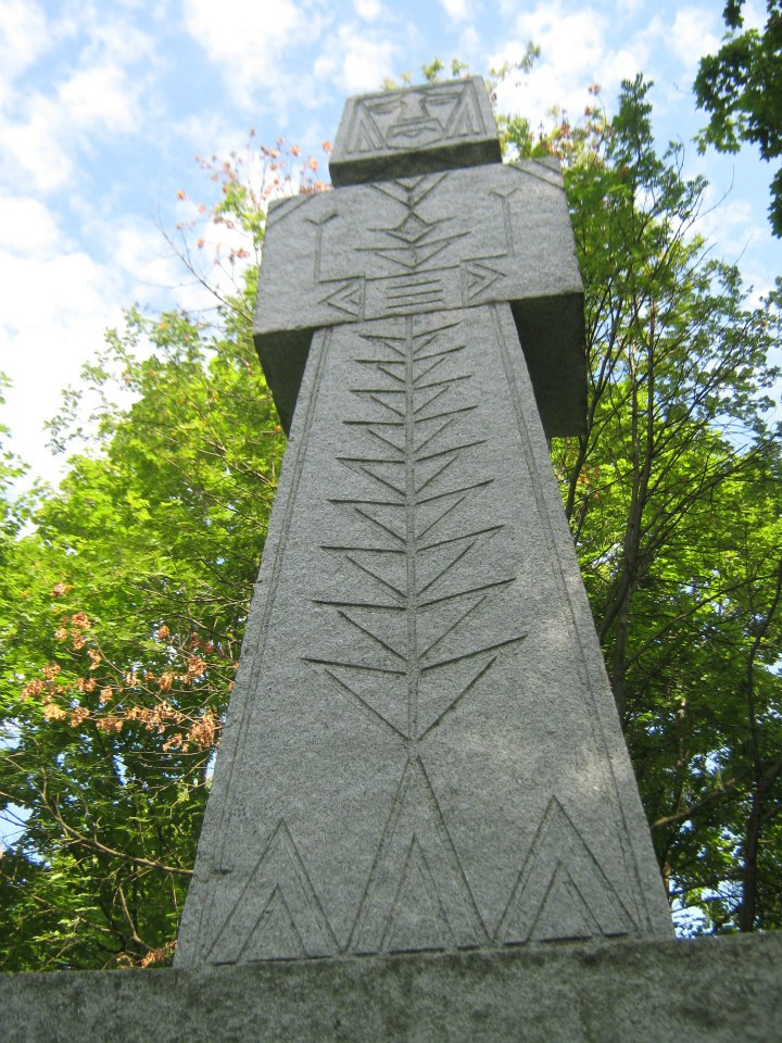 Памятник 1000-ліття с.Трипілля. Обухівський р-н. с.Трипілля на Київщині